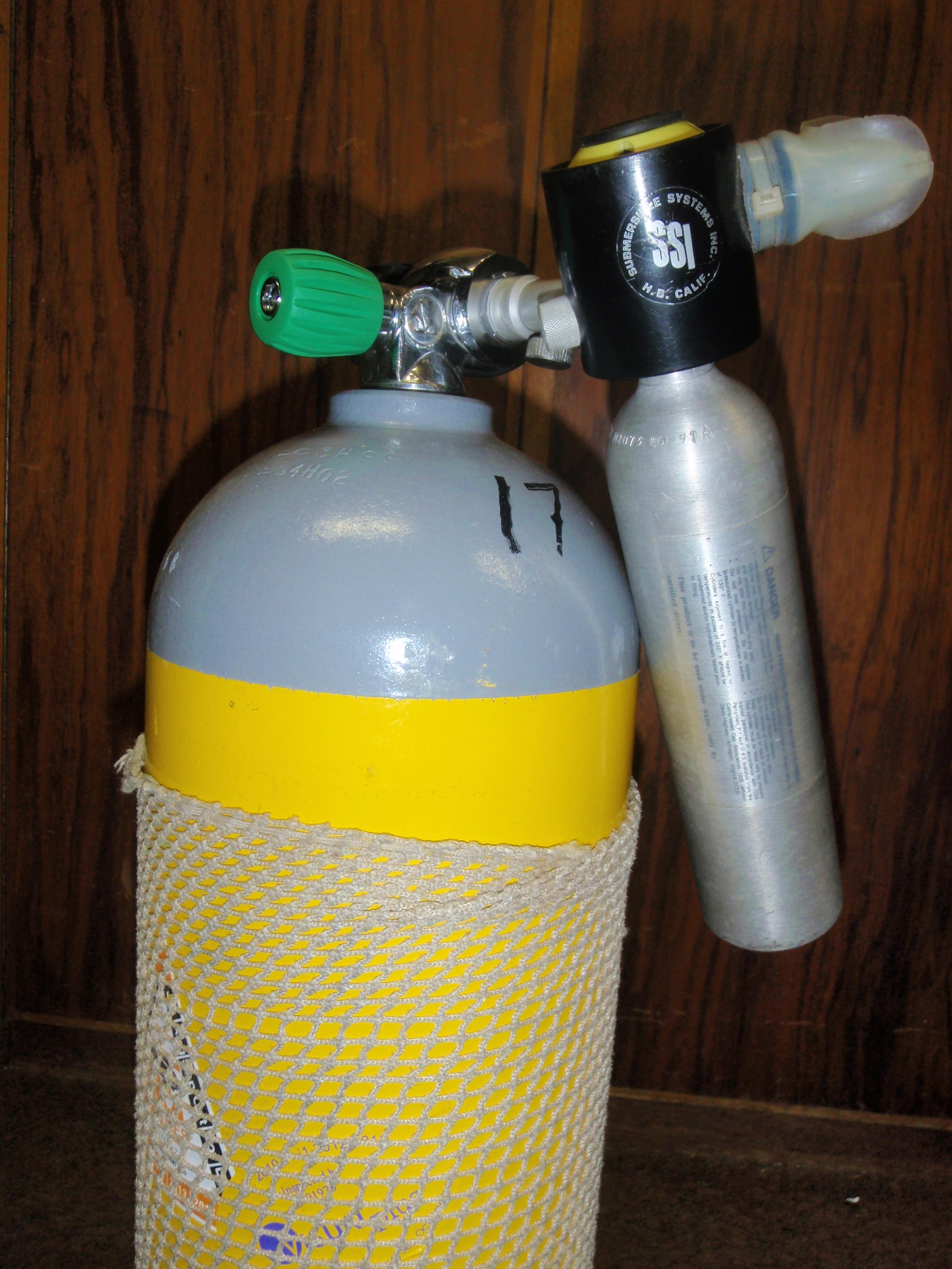 Charging a spare air bailout cylinder from a larger scuba cylinder